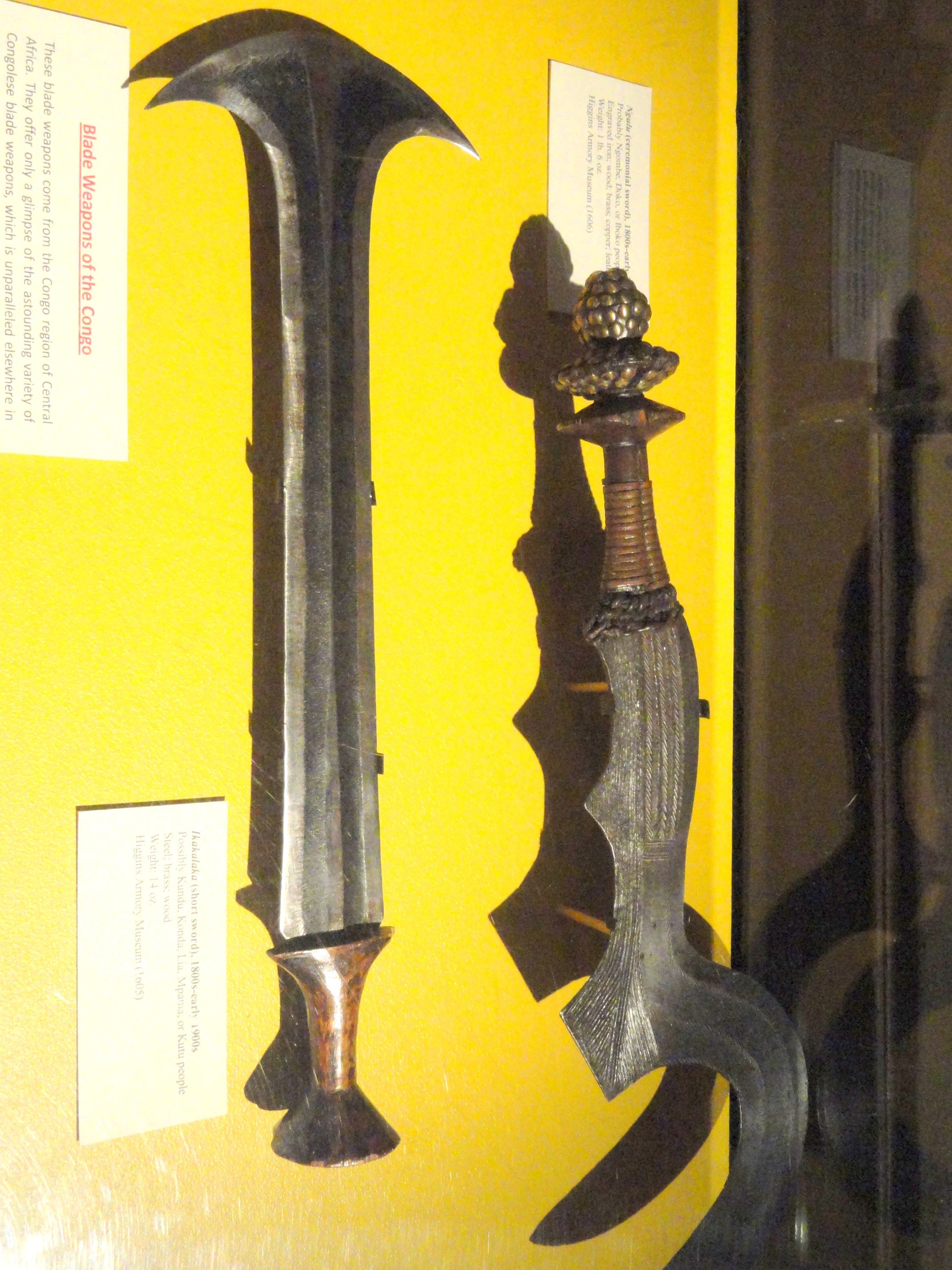 Exhibit in the Higgins Armory Museum, 100 Barber Avenue, Worcester, Massachusetts, USA. The museum permitted photography without any restriction, both in writing and when I asked verbally.